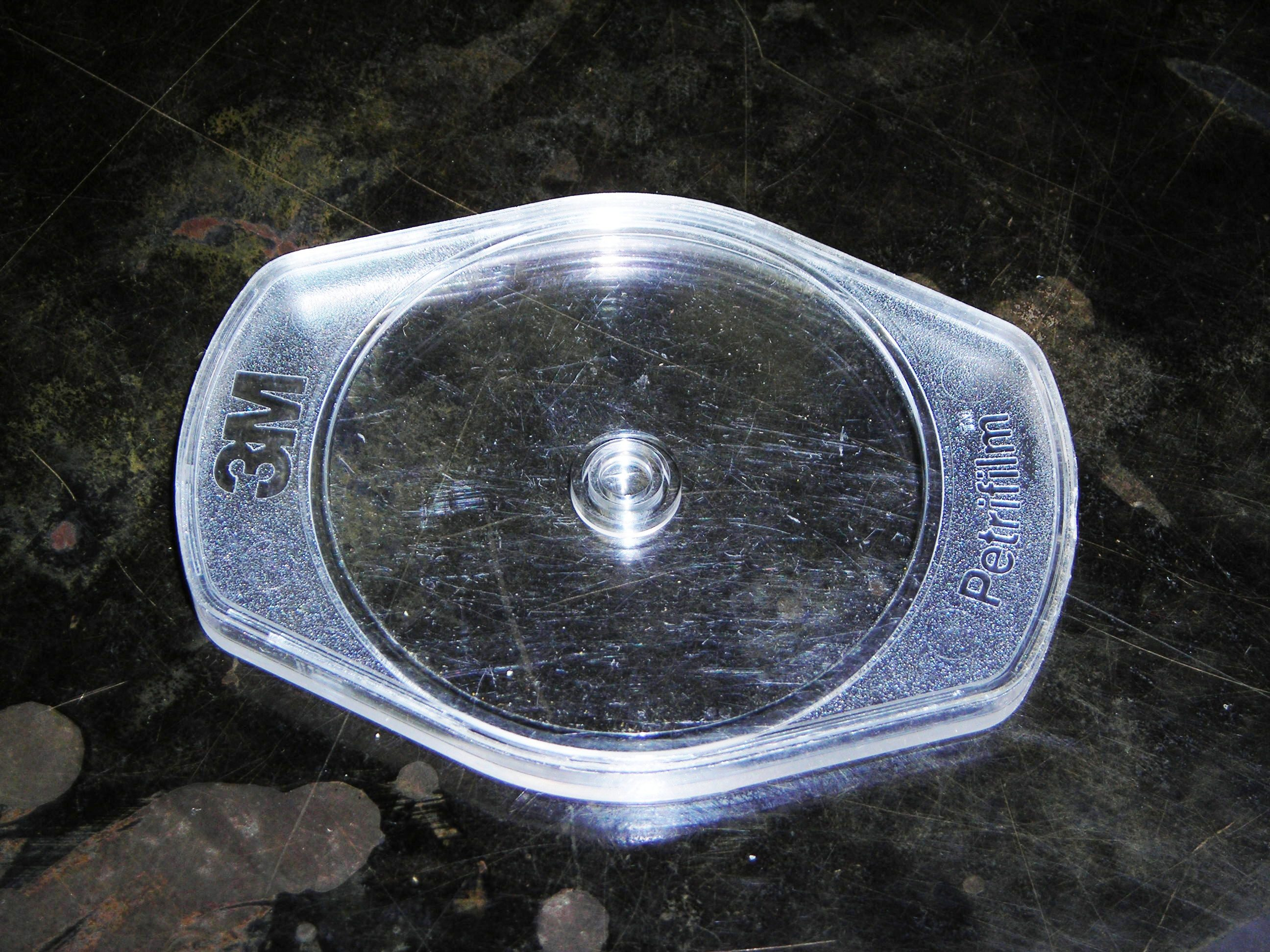 A plastic “spreader” used in conjunction with a Petrifilm plate. Created and uploaded by Achiu31 18:40, 8 April 2007 (UTC)